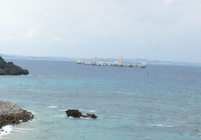 Sea berth on Kin Bay, northwest of Miyagi Island, Uruma.This photo was taken from Odomari beach, Ikei Island.